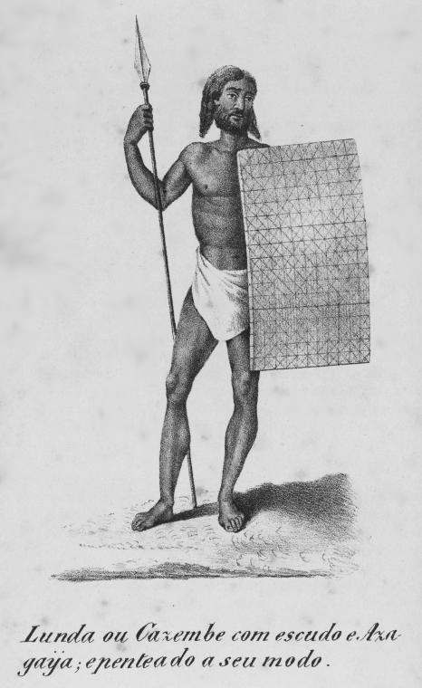 Lunda or Cazembe